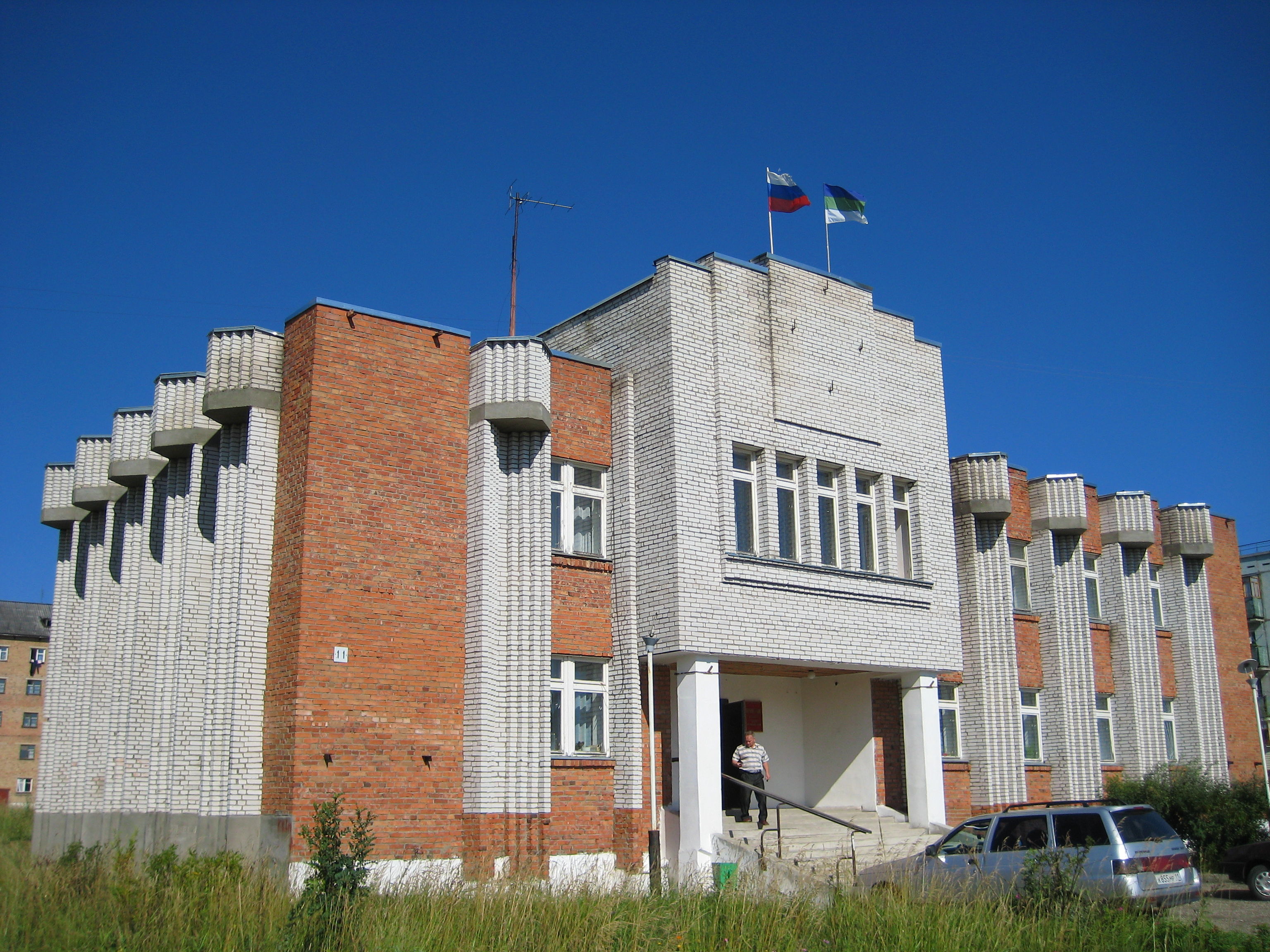 Parliament of Zheshart